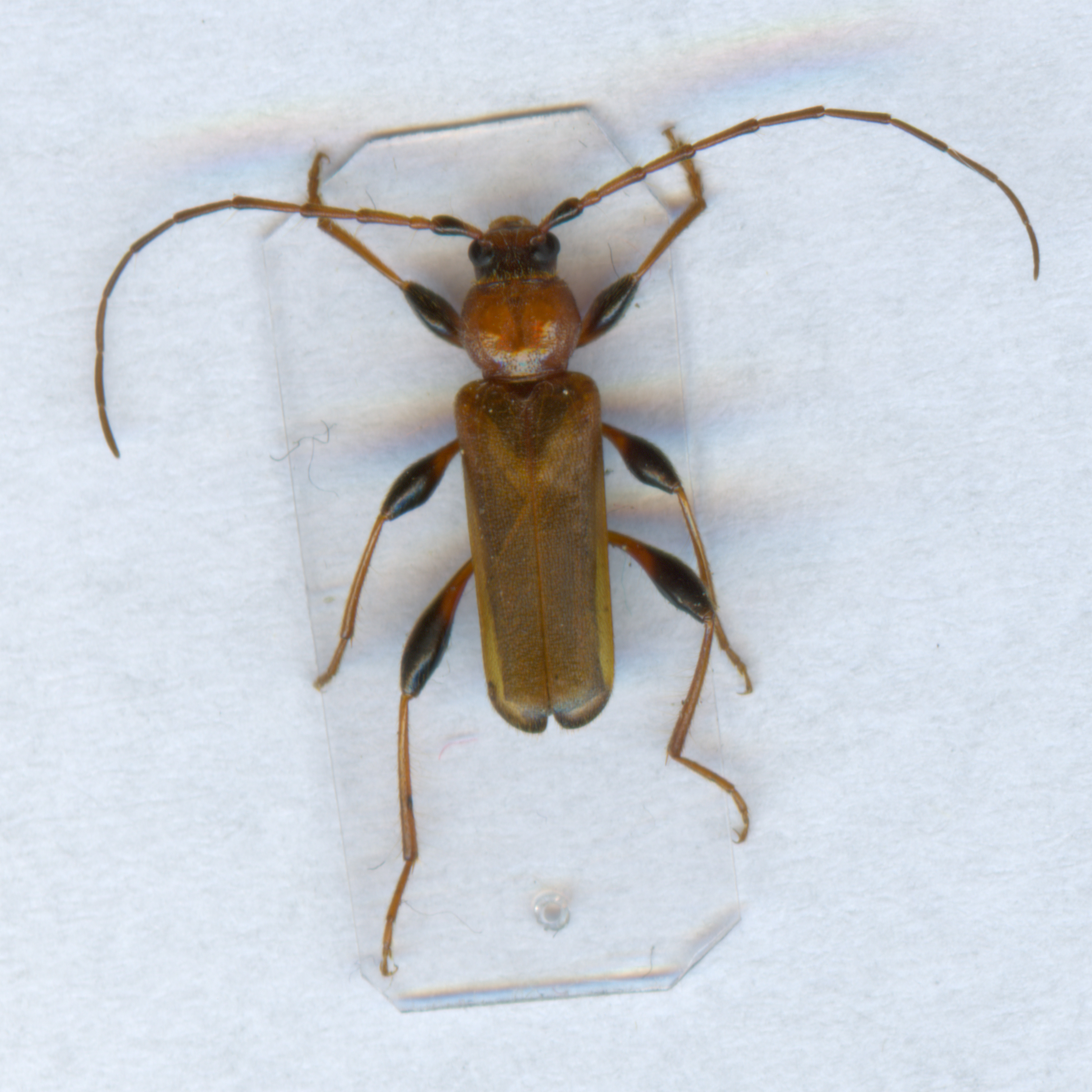 Tanbark borer (Phymatodes testaceus Linnaeus, 1758)